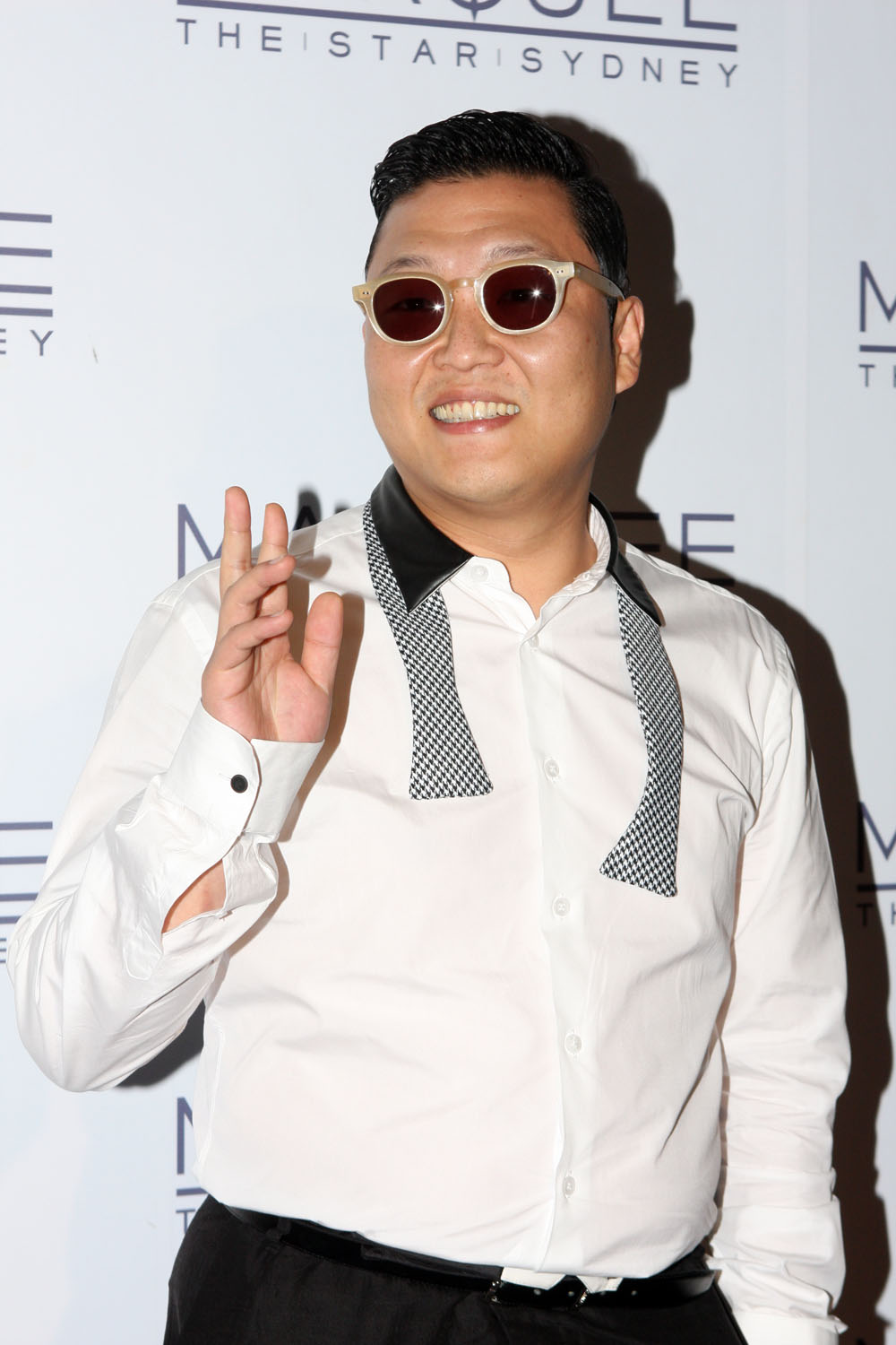 Psy Gangnam Style performs at Marquee, The Star, Sydney, Australia Korean rap music sensation Psy (Park Jae-Sang) performed at Sydney's famous Marquee nightclub at midnight last night. It was obvious one or two VIP's and high rollers were in town, with police having a strong presence in and around the one time casino - now more an integrated entertainment and gaming hub, complete with nightclubs and entertainment attractions a plenty. The only thing - person Marquee Sydney and The Star was missing was Psy, and now that's complete how will they top that! We hear maybe with KISS, The Rolling Stones and / or Blondie and Pink, but that's just rumour at this stage... but do expect at least one of those big time acts to follow in Psy's footsteps. The music video for "Gangnam Style" is the most viewed K-pop video on YouTube, and also the most "liked" video on the site. Published on July 15, 2012, the video has over 480 million views, and more than 4.1 million "likes." Psy has appeared on numerous television programs, including The Ellen DeGeneres Show, Extra, Good Sunday: X-Man, The Golden Fishery, The Today Show, Saturday Night Live and Sunrise. Stay tuned and don't change your dial for more hot news on Psy and more of the world's top entertainment attractions. Websites Psy official website Marquee Sydney Eva Rinaldi Photography Flickr Eva Rinaldi Photography Music News Australia